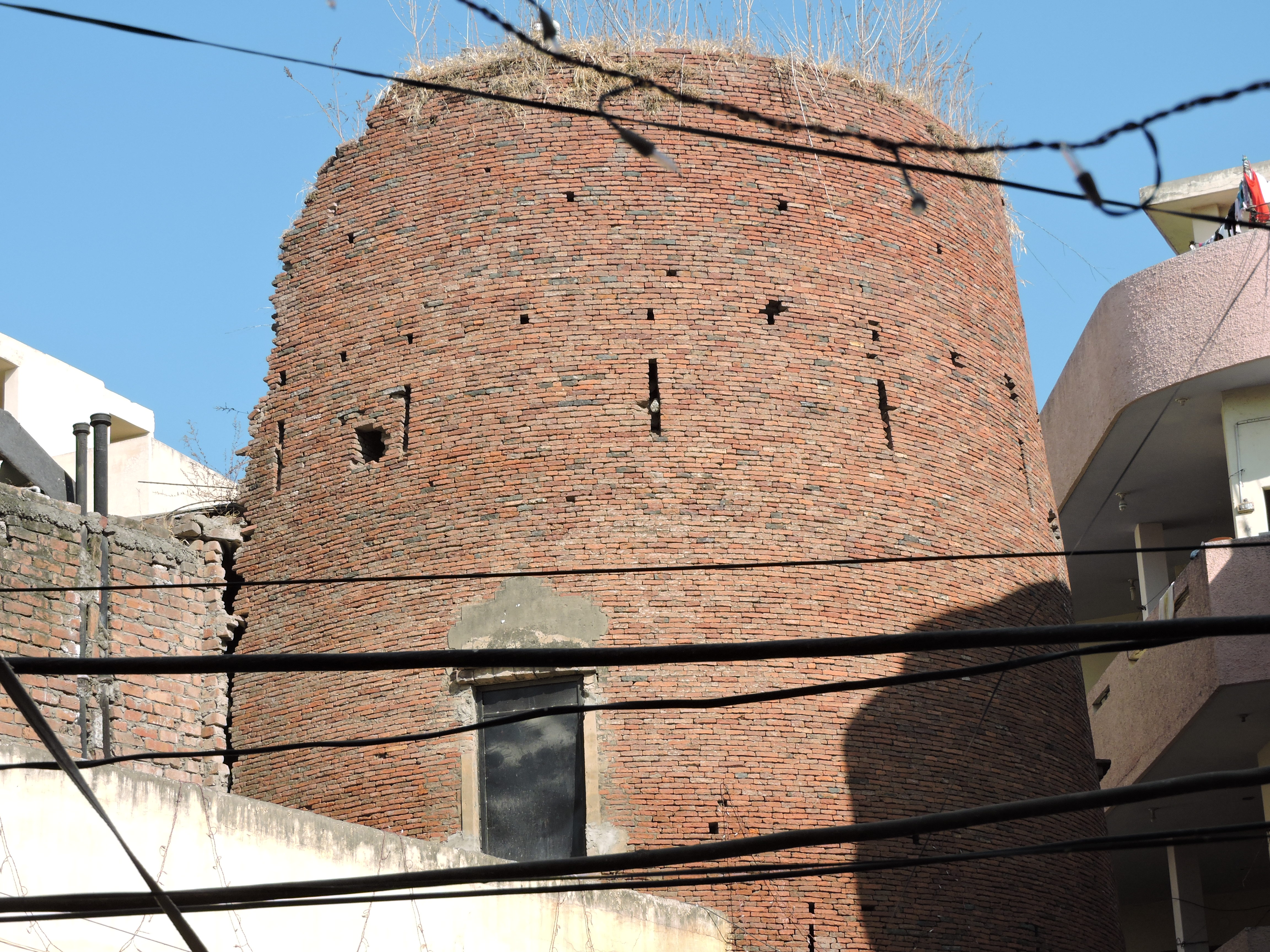 Burail fort, Front East side piller, Chandigarh